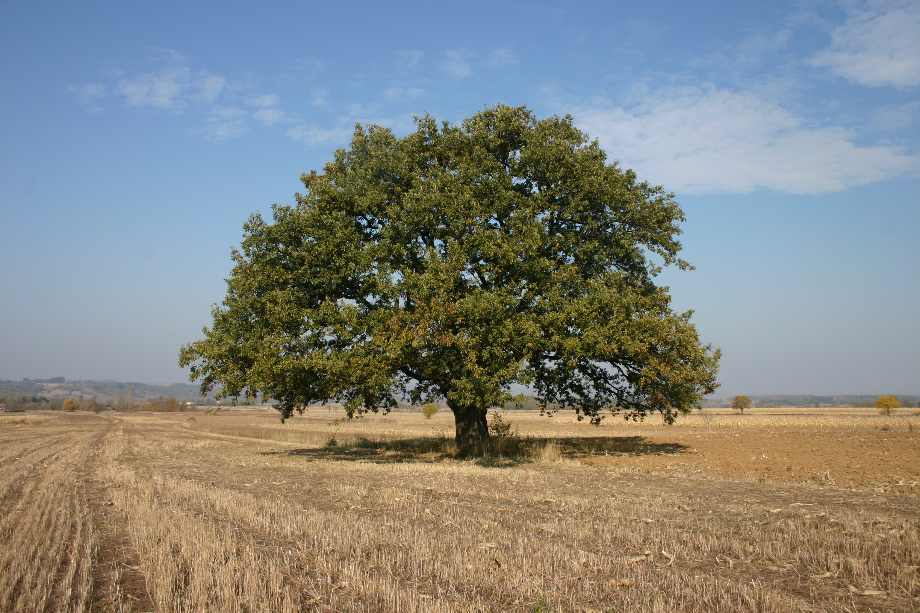 Zapis - Sacred Tree in village Vezičevo, municipality Petrovac na Mlavi, Braničevo District, Serbia